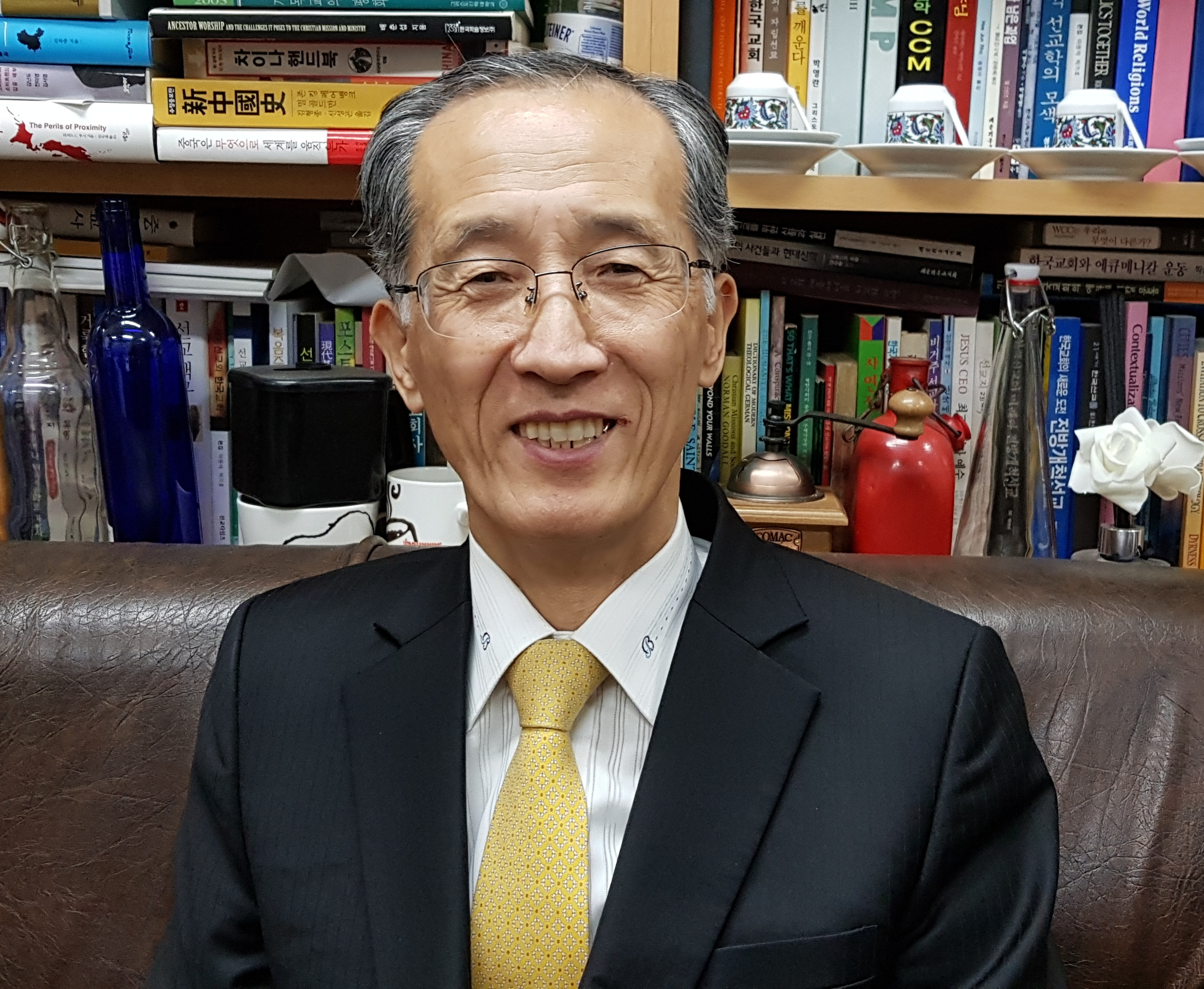 Dr. Hye Kyung Park(Professor of Systematic theology in Baesuk University)